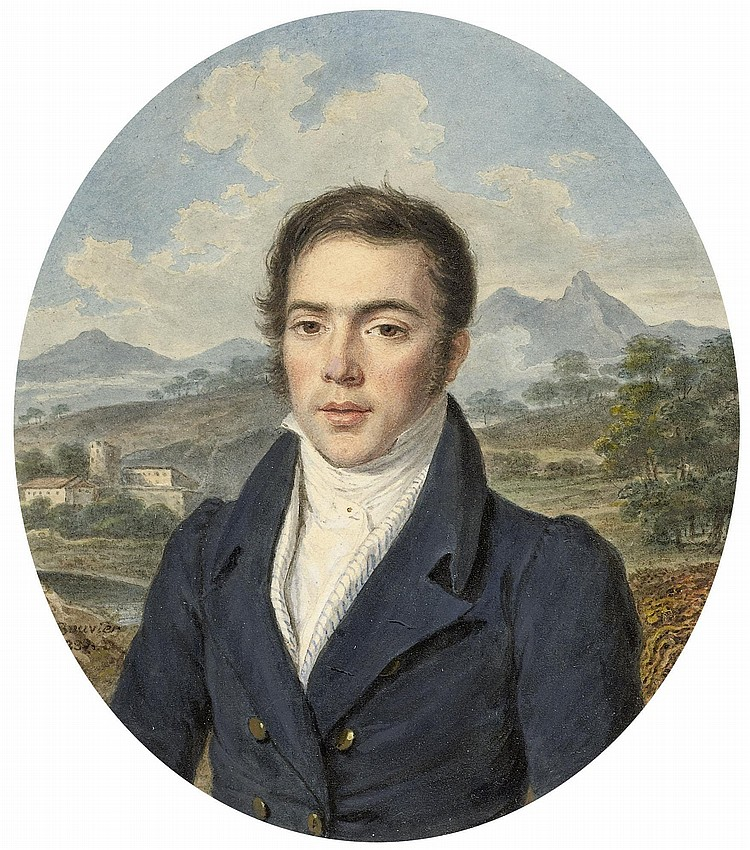 Portrait